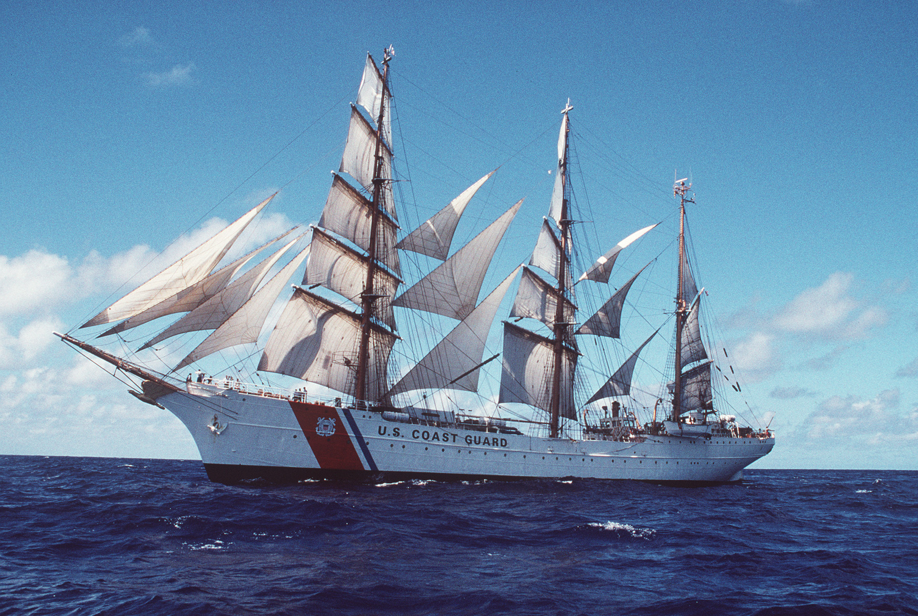 USCGC Eagle (WIX-327) off San Juan, Puerto Rico